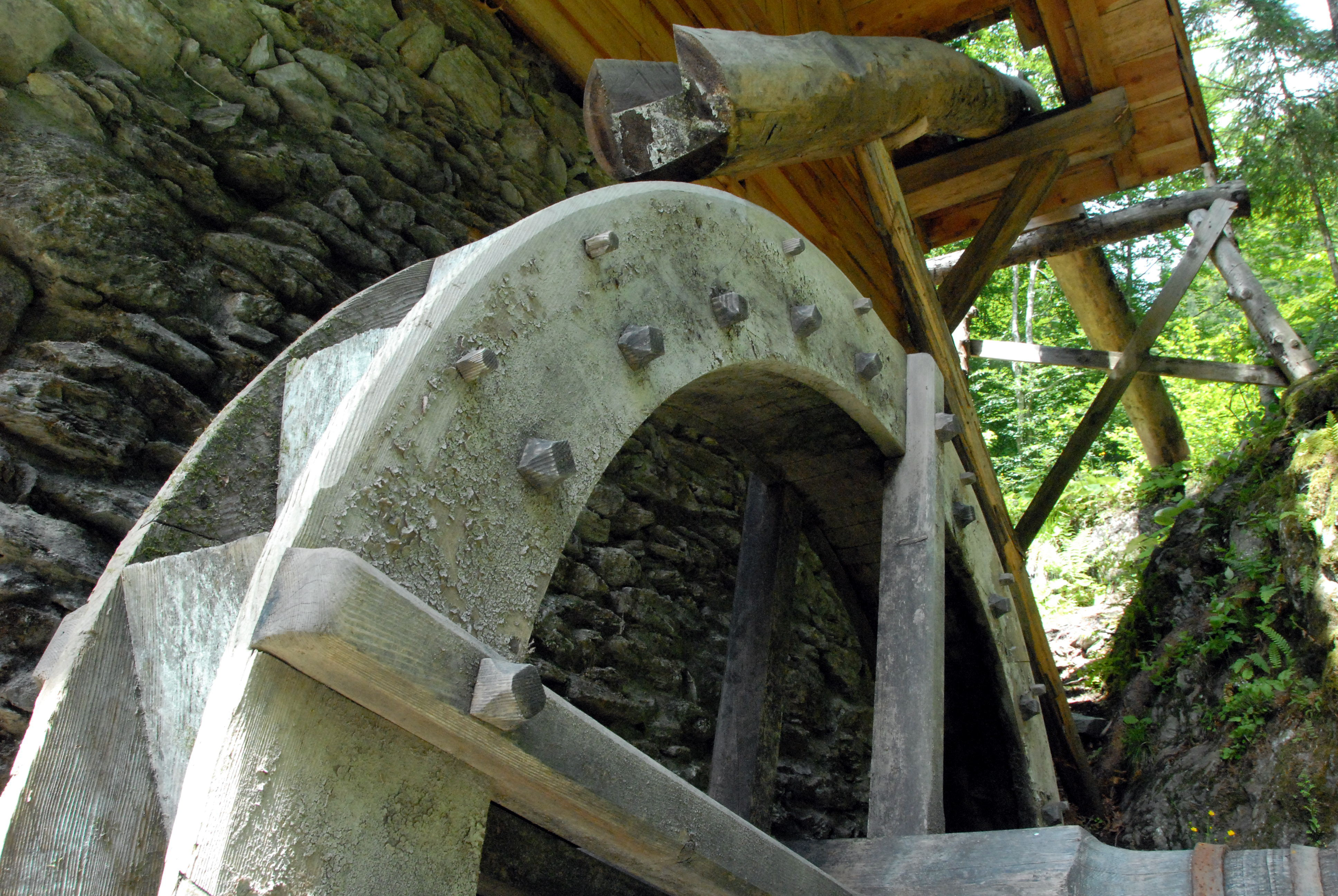 Mill-wheel of a mill in the Roethen ditch at Sankt Jakob im Lesachtal, municipality Kötschach-Mauthen, district Hermagor, Carinthia / Austria / EU